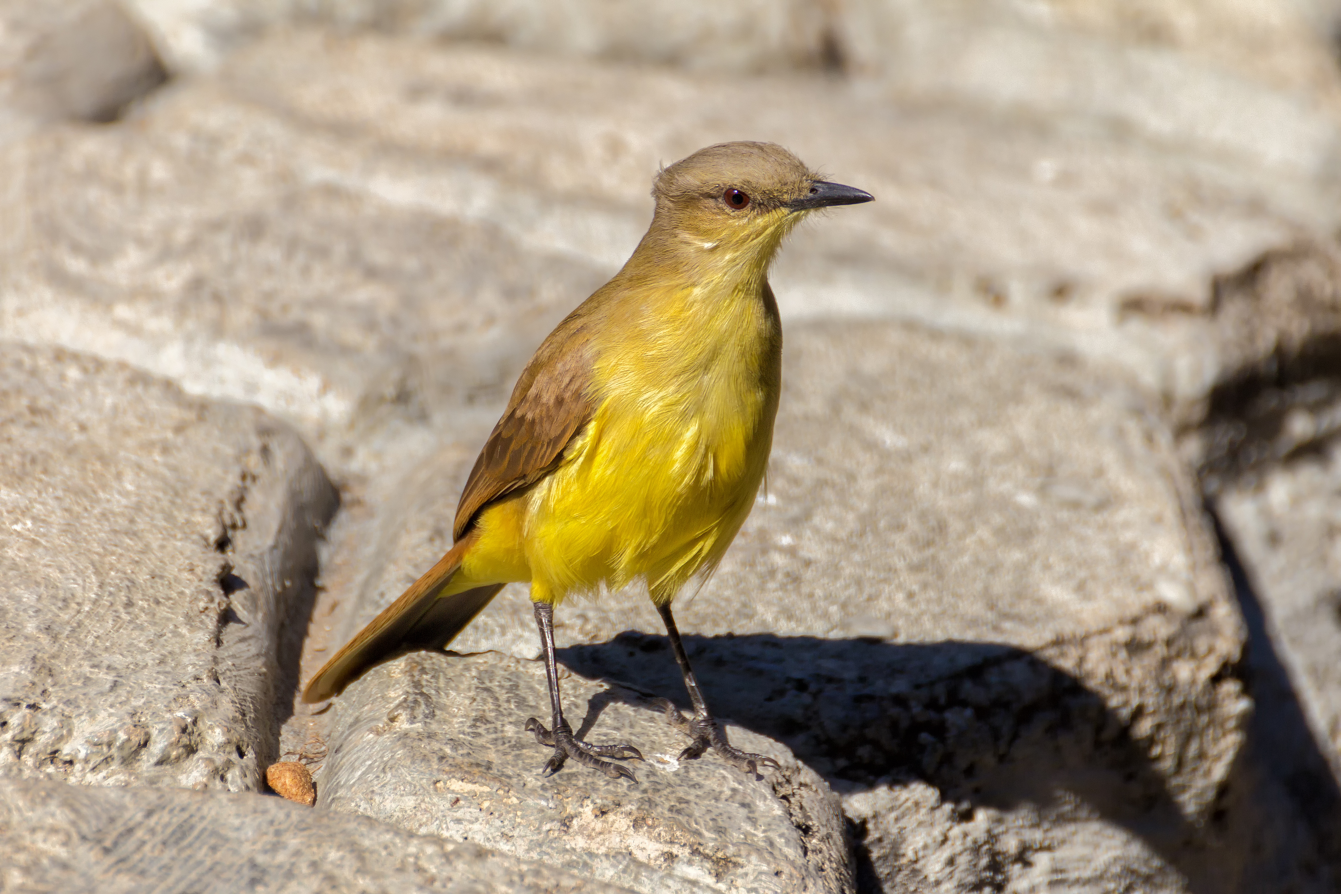 A Cattle Tyrant in Parque del Este, Caracas, Venezuela.